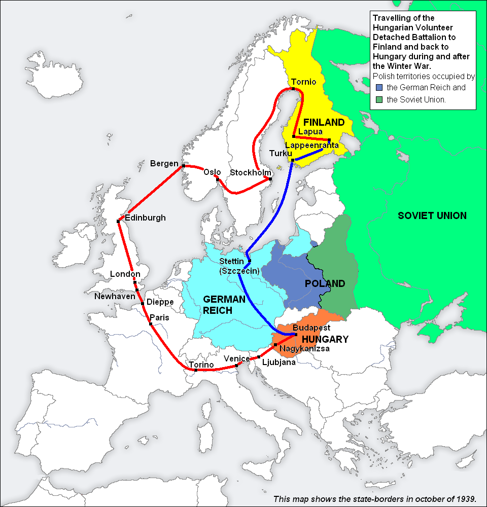 Roads used by the battalion of Hungarian volunteers to Finland (red line) and to Hungary (blue line) during and after the Winter War (1939-1940) against the Soviet Union.